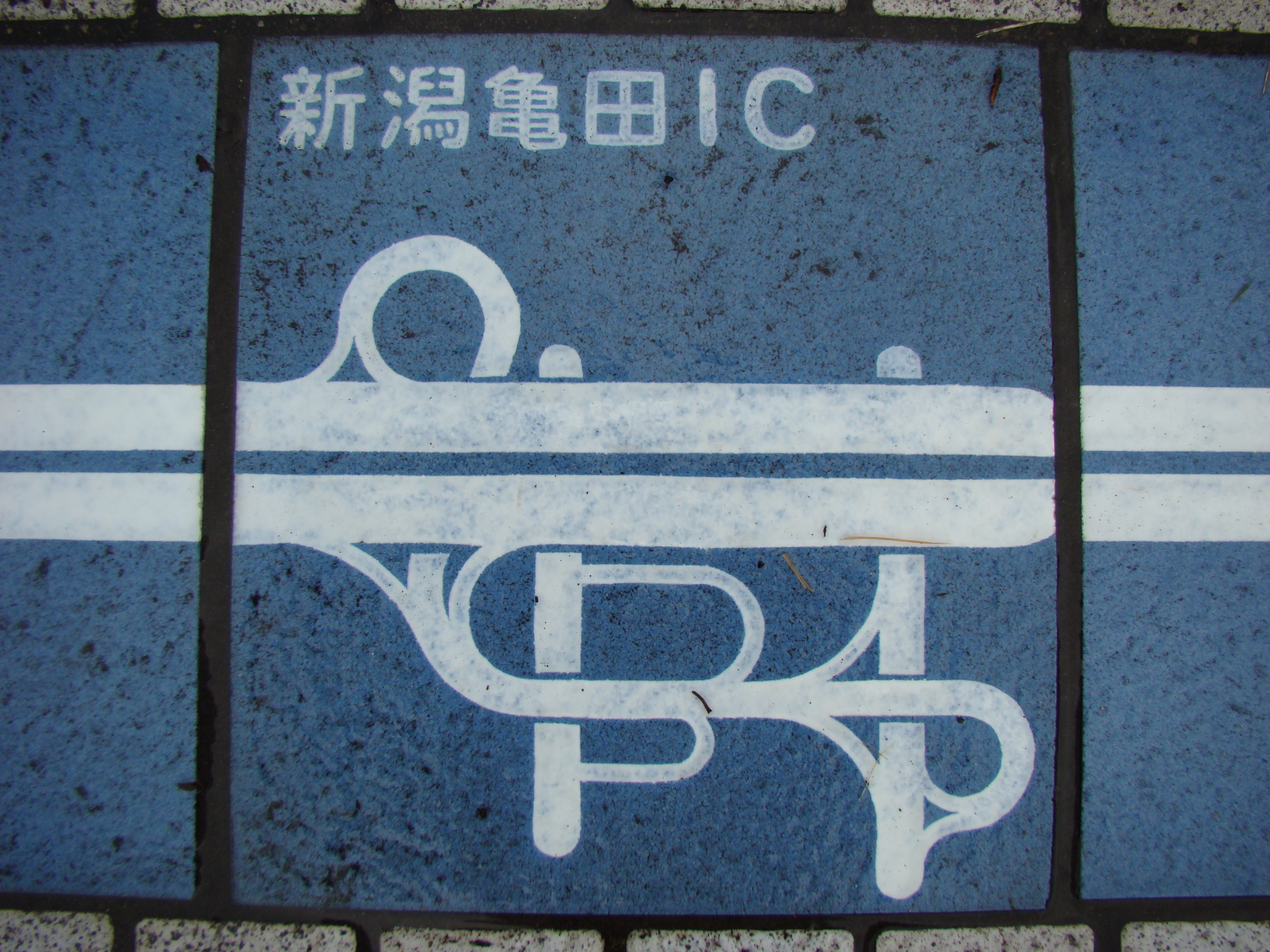 The tile which designed a shape of the Niigata Kameda Interchange（Nihonkai-Tohoku Expressway）（There is this tile in Hokuriku Expressway Nadachi-Tanihama Service Area.）. Place - Chayagahara,Joetsu City,Niigata Prefecture,Japan Date - August 9, 2009 Format - JPEG, 3264x2448pixel, 24bit colors. Photographer - NALA Wiki (talk)